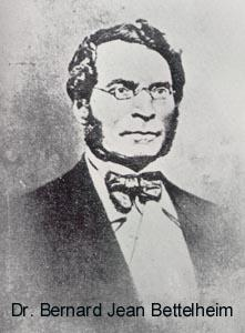 The reverend doctor Bernard Jean Bettelheim (1811 - 1870)